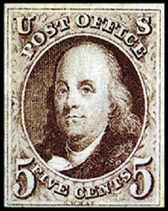 First federal postage stamp of the USA, Franklin, 5 cents, 1847